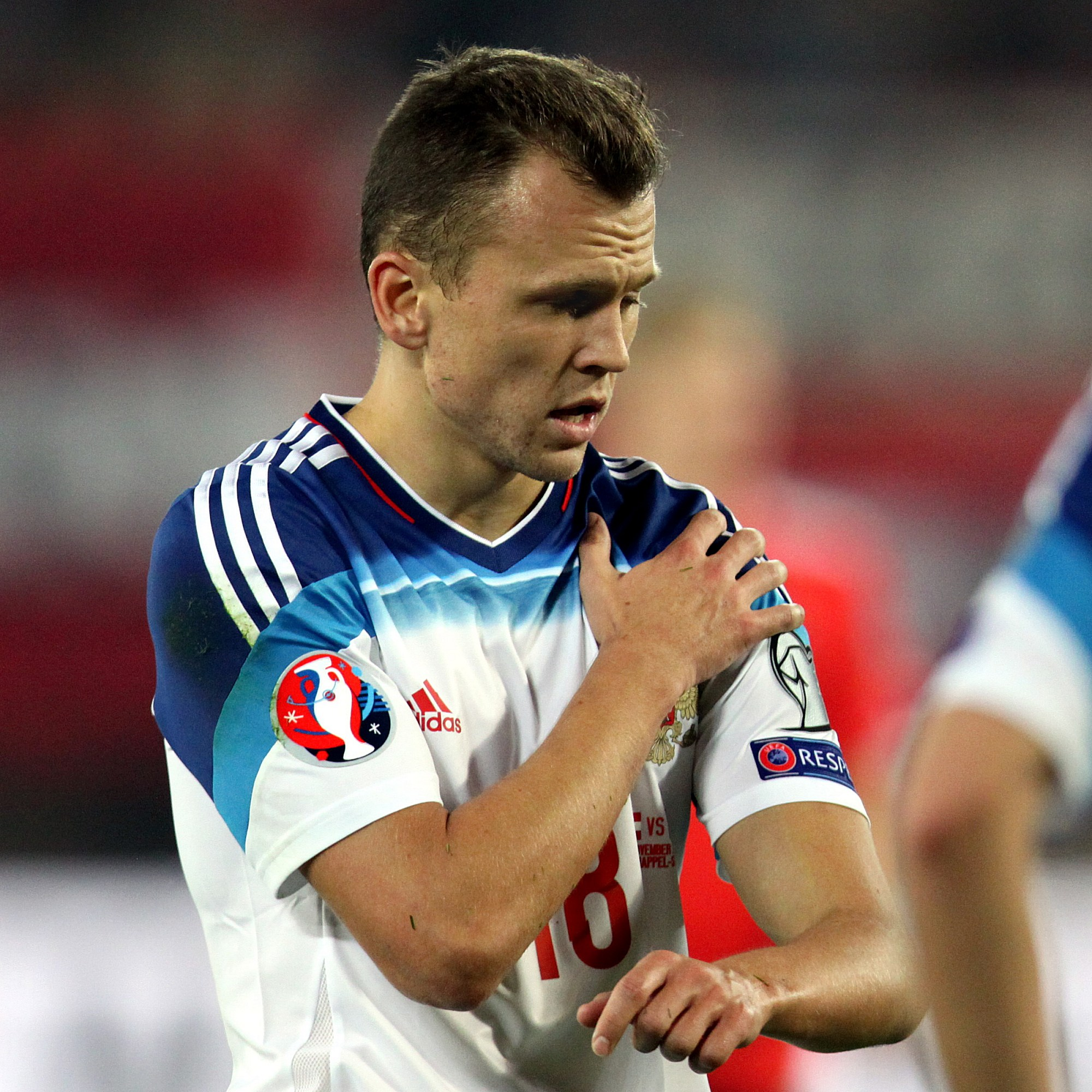 UEFA Euro 2016 qualifying: Austria vs. Russia (1:0 / 0:0) at 2014-11-15 in the Ernst-Happel-Stadion in Vienna. – The photo shows en: (Austria / Russia).